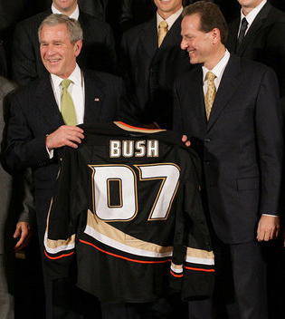 Henry Samueli with the Ducks presenting Bush with a jersey